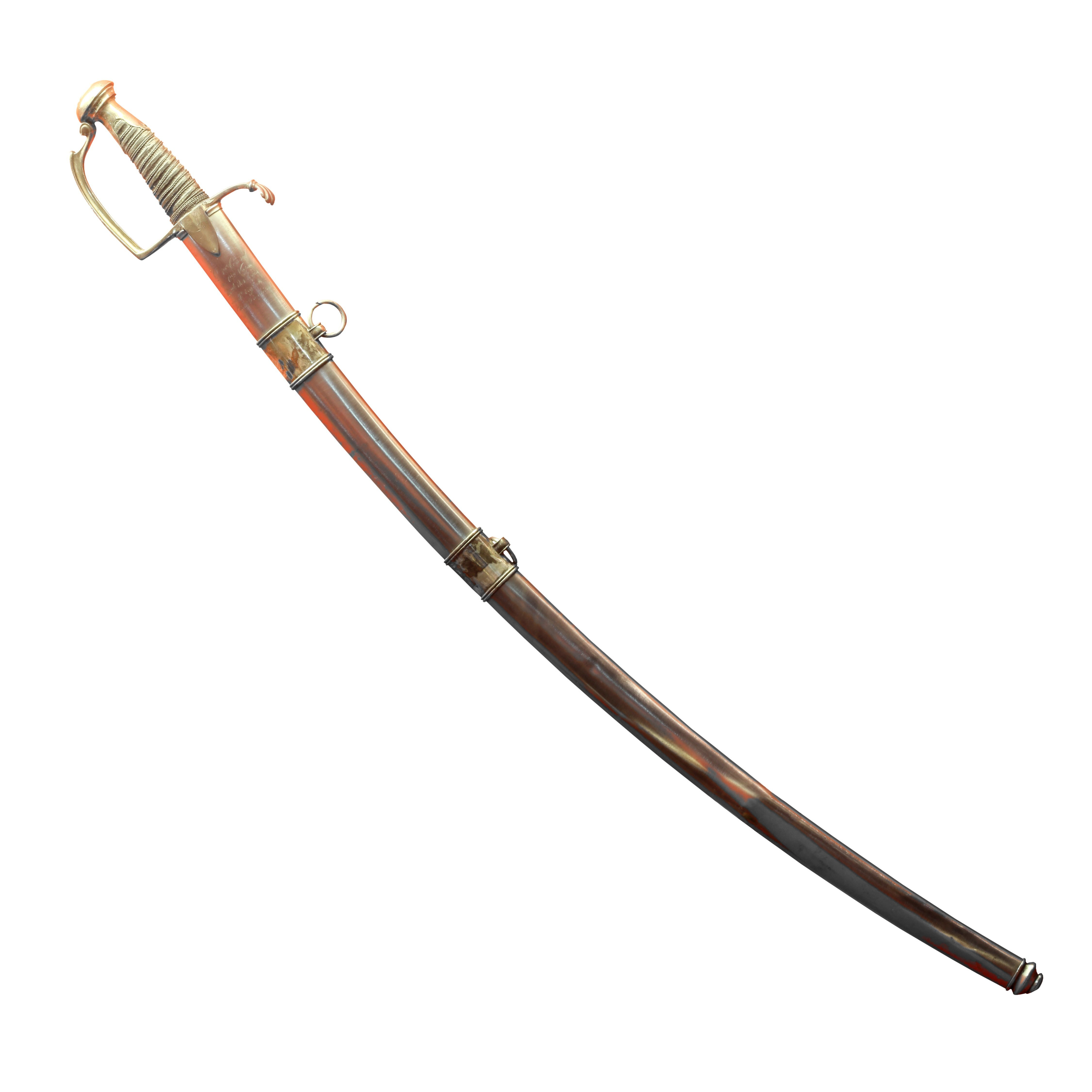 Sabre of honour: "The First Consul to citizen Antoine Vigne, maréchal des logis at the 5th regiment of mounted chasseurs". On display at Neuchâtel Arts and History museum.